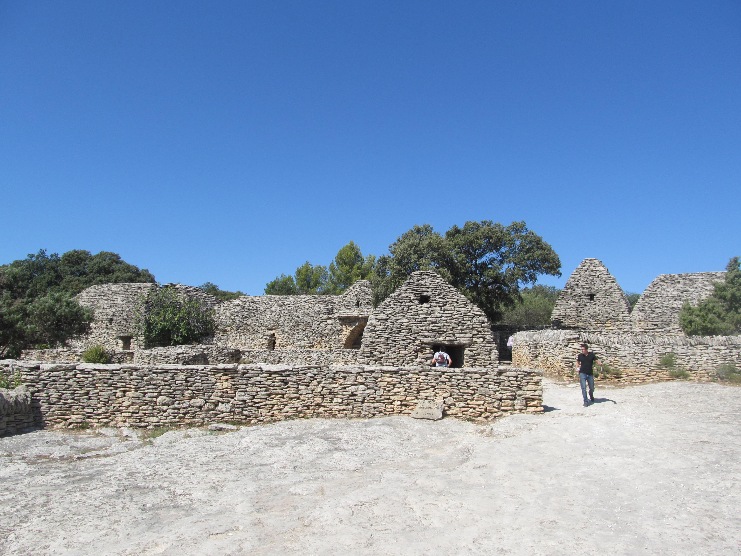 Villages des Bories - Total View